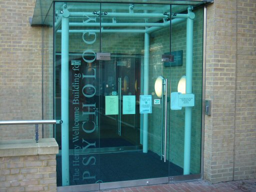 Henry Wellcome Building at the Institute of Psychiatry, London UK taken by Paul Wicks in January 2006